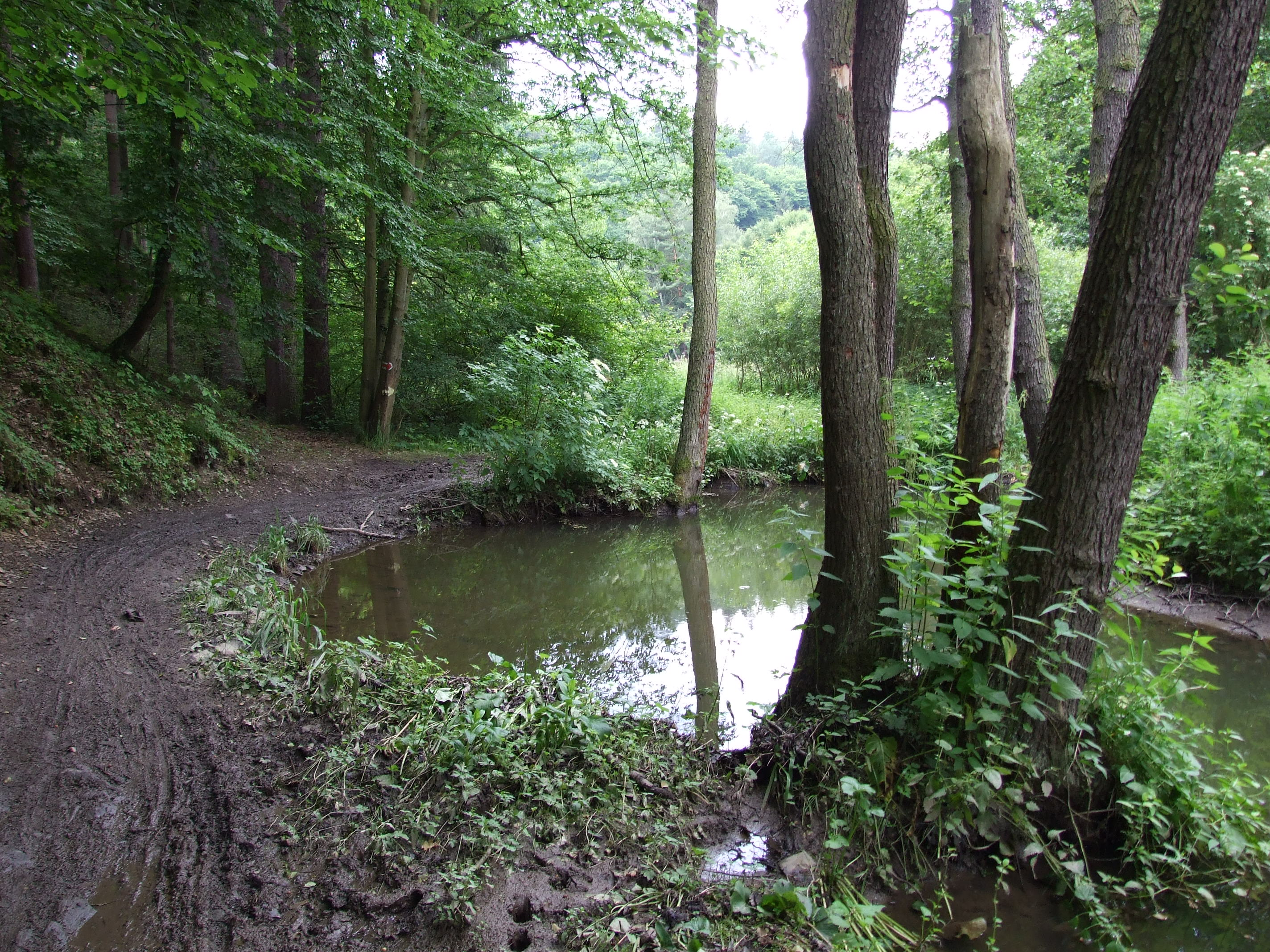 Loděnice river/stream roughly near Ptice village, Central Bohemian region, CZhelp